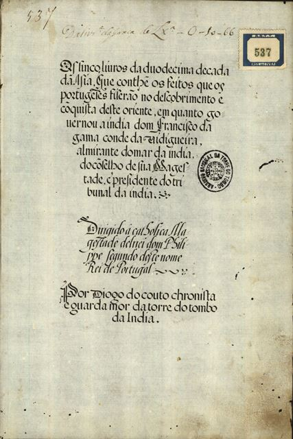 Manuscript from Diogo Couto's Da Asia